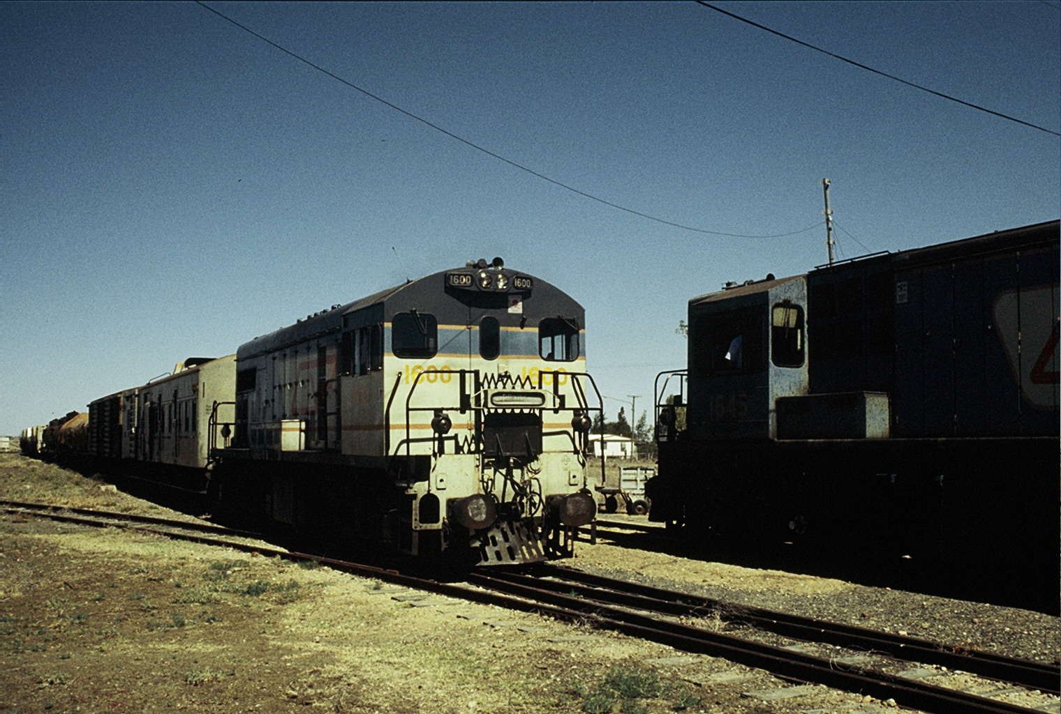 QR loco 1600 hauling the Winton-Hughenden train crosses 1645, September 1989